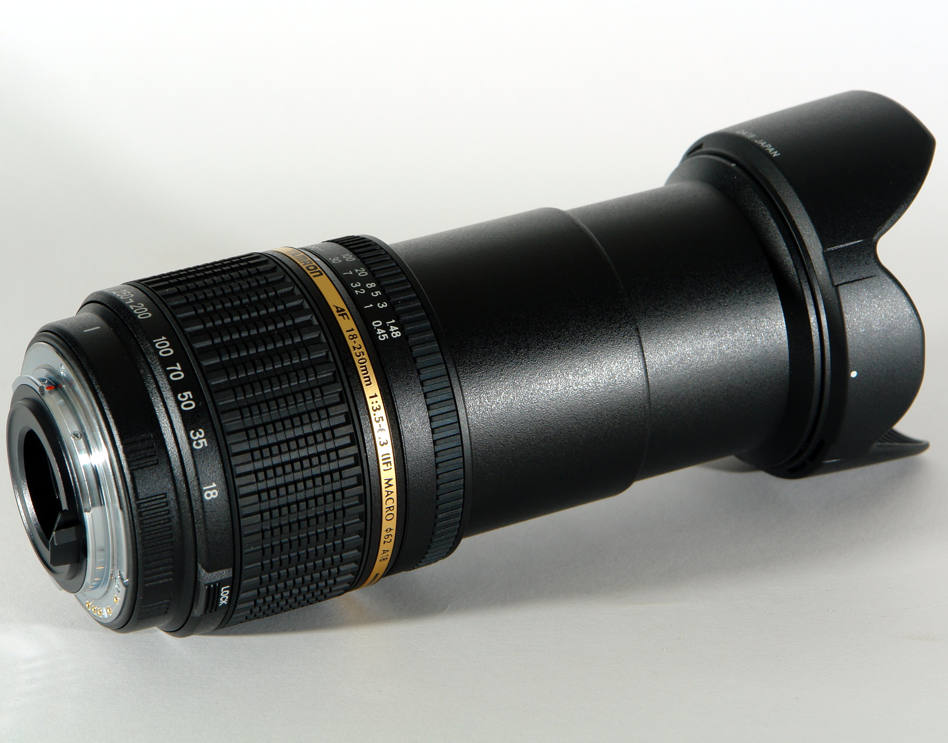 Tamron AF 18-250mm f/3.5-6.3 IF Macro A18 K-mount lens Aspherical LD DiII. This one is in the Pentax K mount.